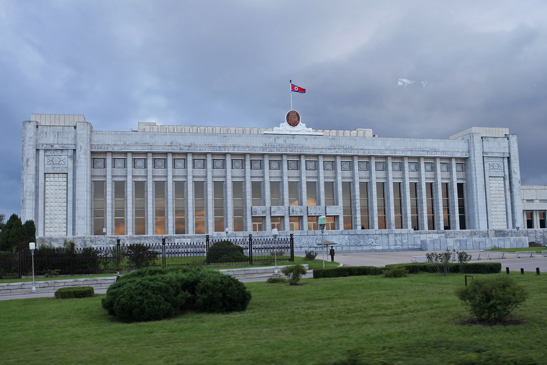 Mansudae Assembly Hall